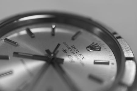 Macro photography of a Relex watch